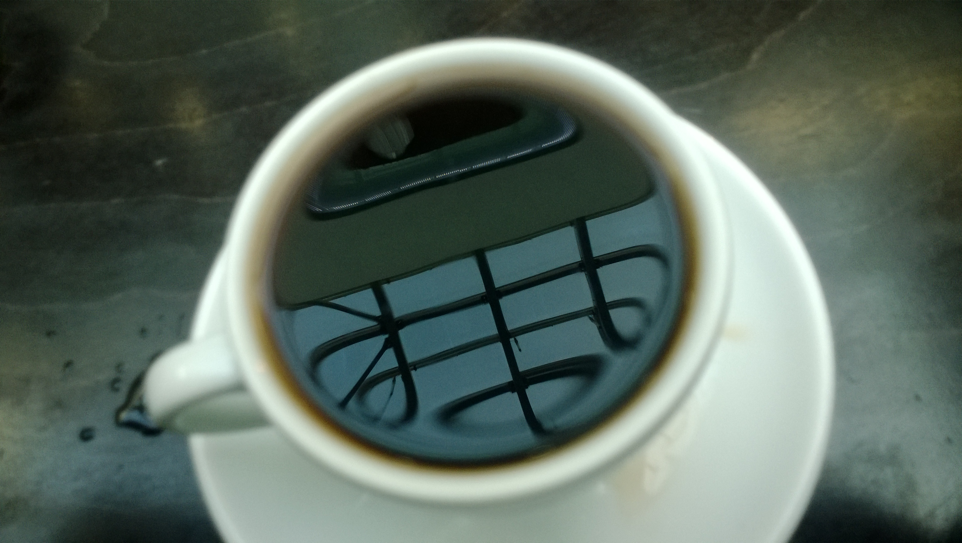 Reflection of transparent roof in Pu-erh tea. Sun City, Novosibirsk.